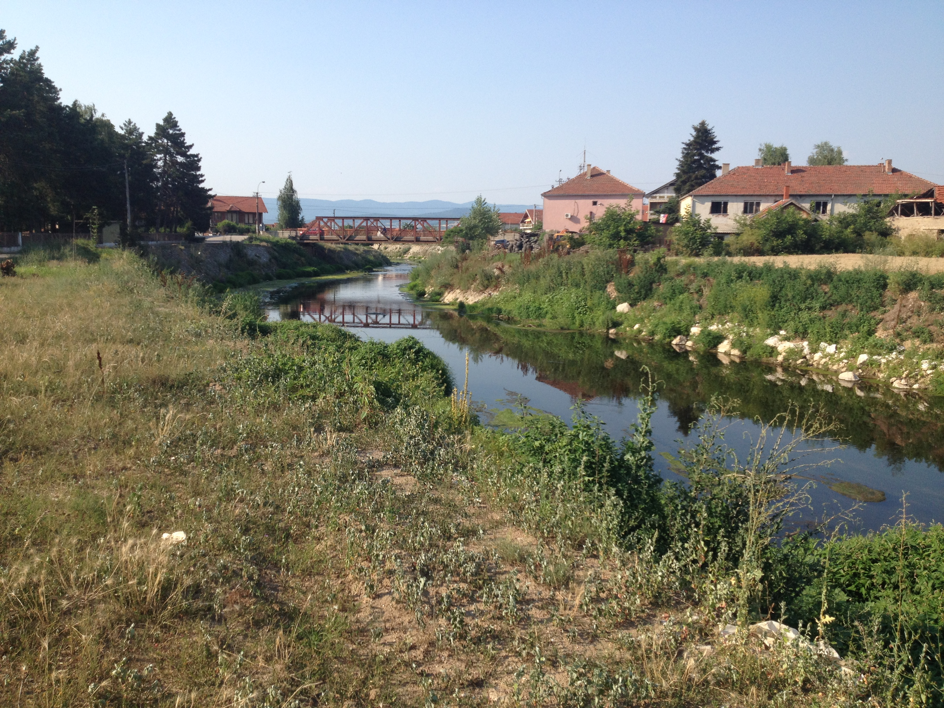 Jablanica river in PecenjevceСрпски (ћирилица): река Јабланица у Печењевцу